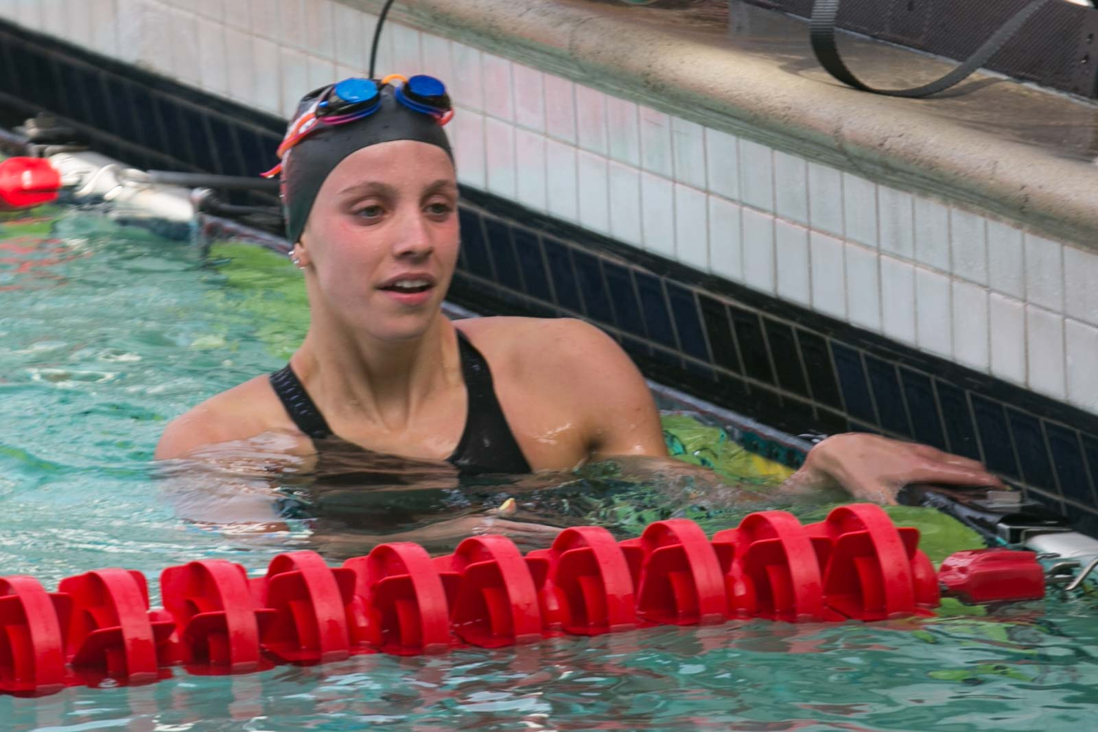 Regan Smith after winning 100m backstroke